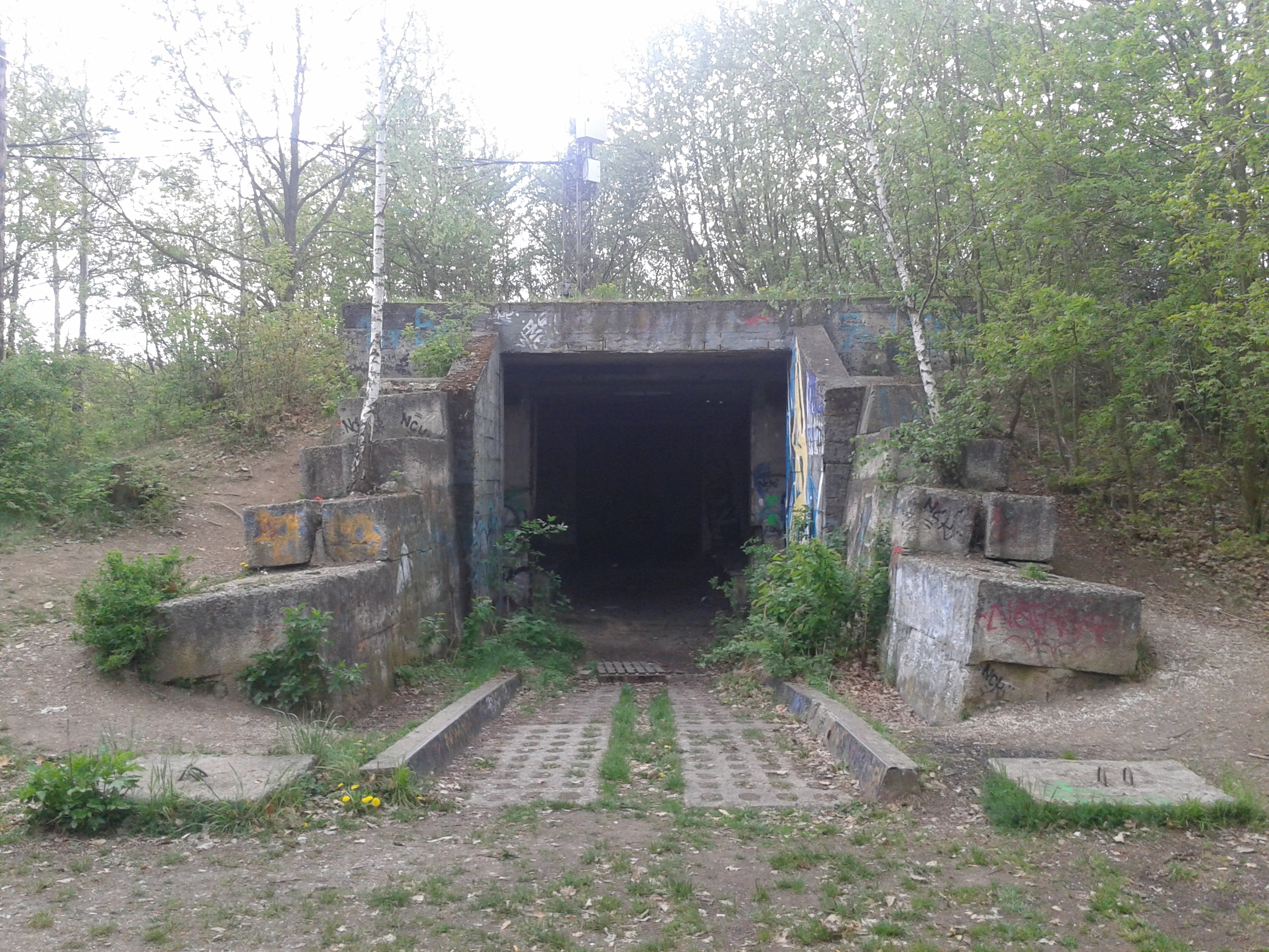 Airsoft playground Točná in the former military area of the 11th anti-aircraft missile section of the 71st Anti-Aircraft Missile Brigade of defence of the City of Prague.